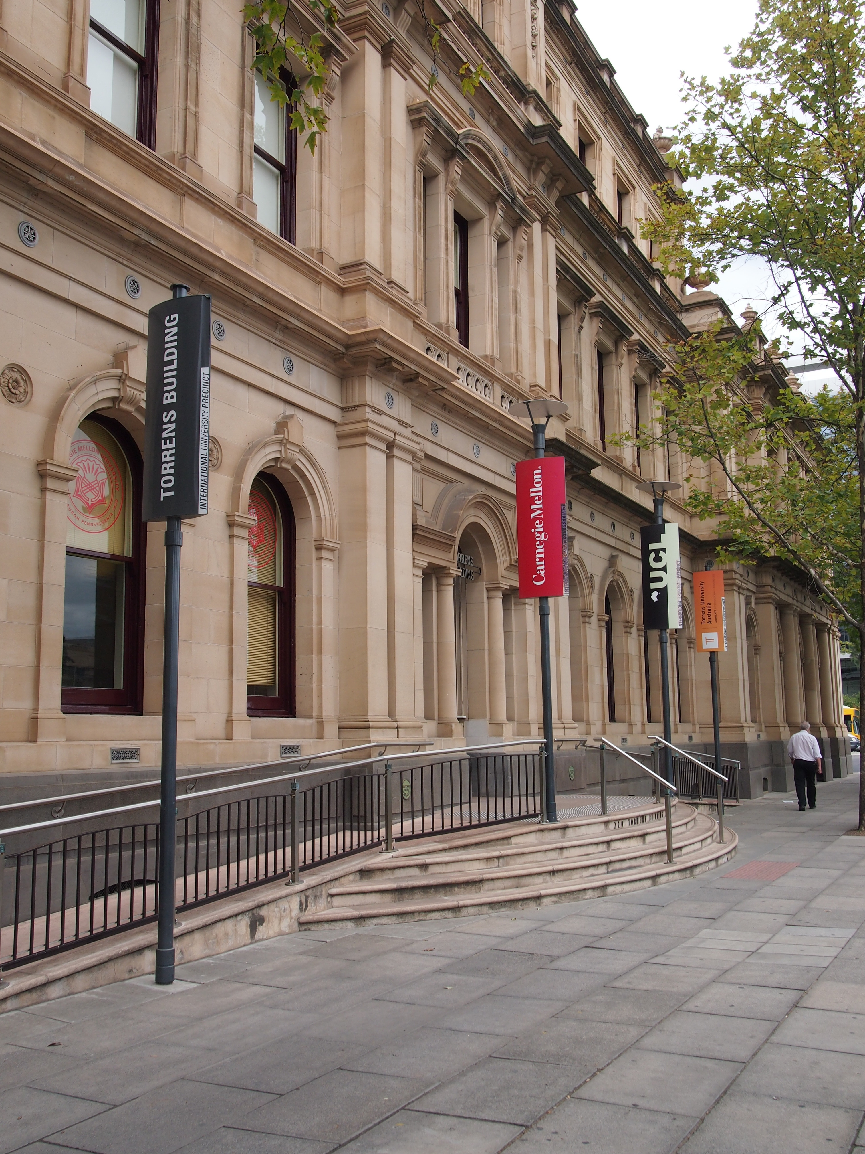 The historic Torrens Building in Victoria Square, Adelaide houses campuses of several international universities operating in South Australia including the Carnegie Mellon University, Australia, the University College London's School of Energy and Resources, and the Torrens University Australia. Original filename= P2211081.JPG